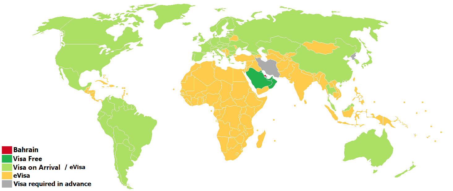 Visa policy of Bahrain Bahrain Visa-free Visa on arrival or eVisa eVisa Visa required